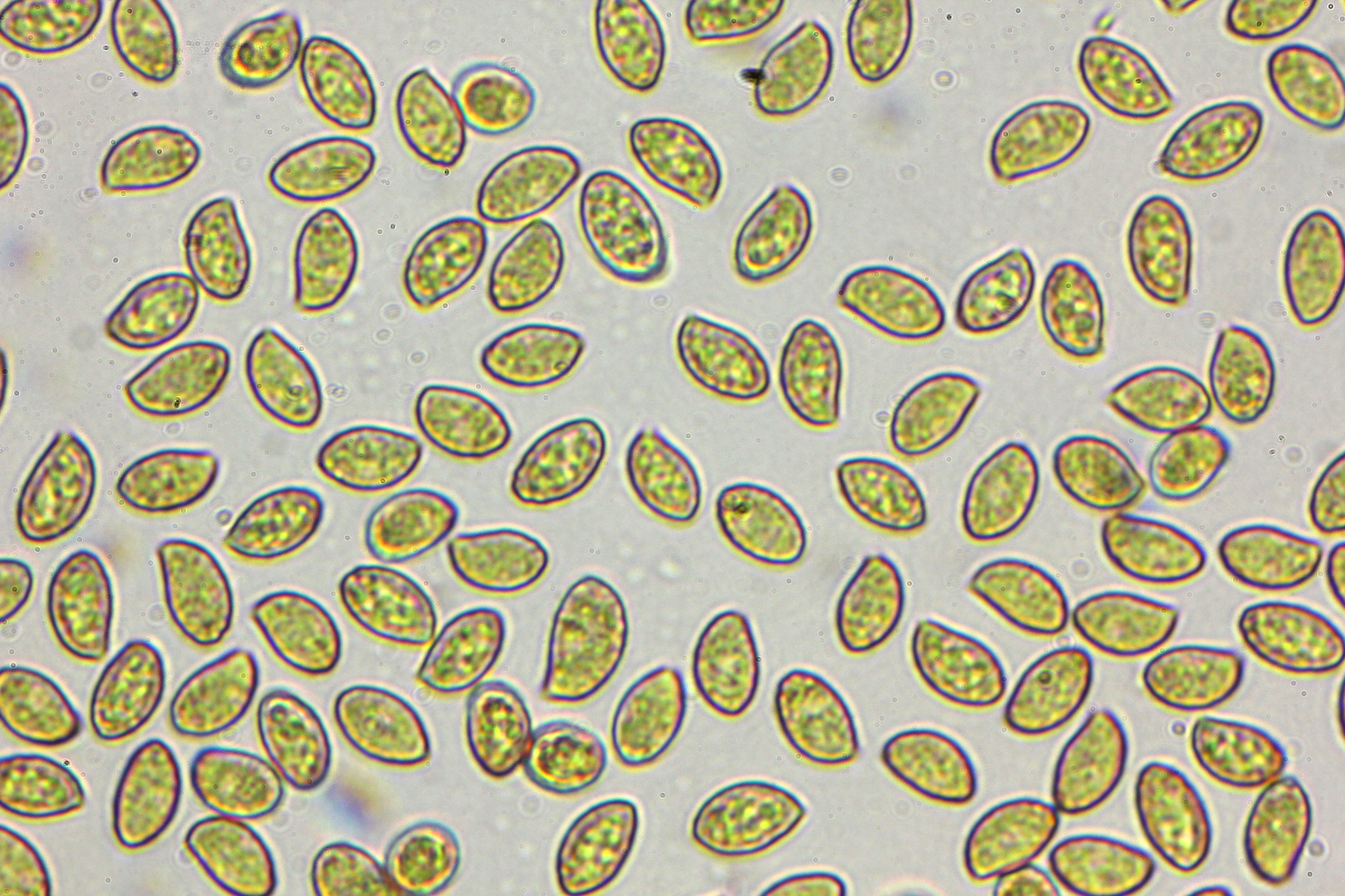 Cortinarius ponderosus spores 1000x Found by Alan Rockefeller in Teague Hill Open Space Preserve 01/01/2013